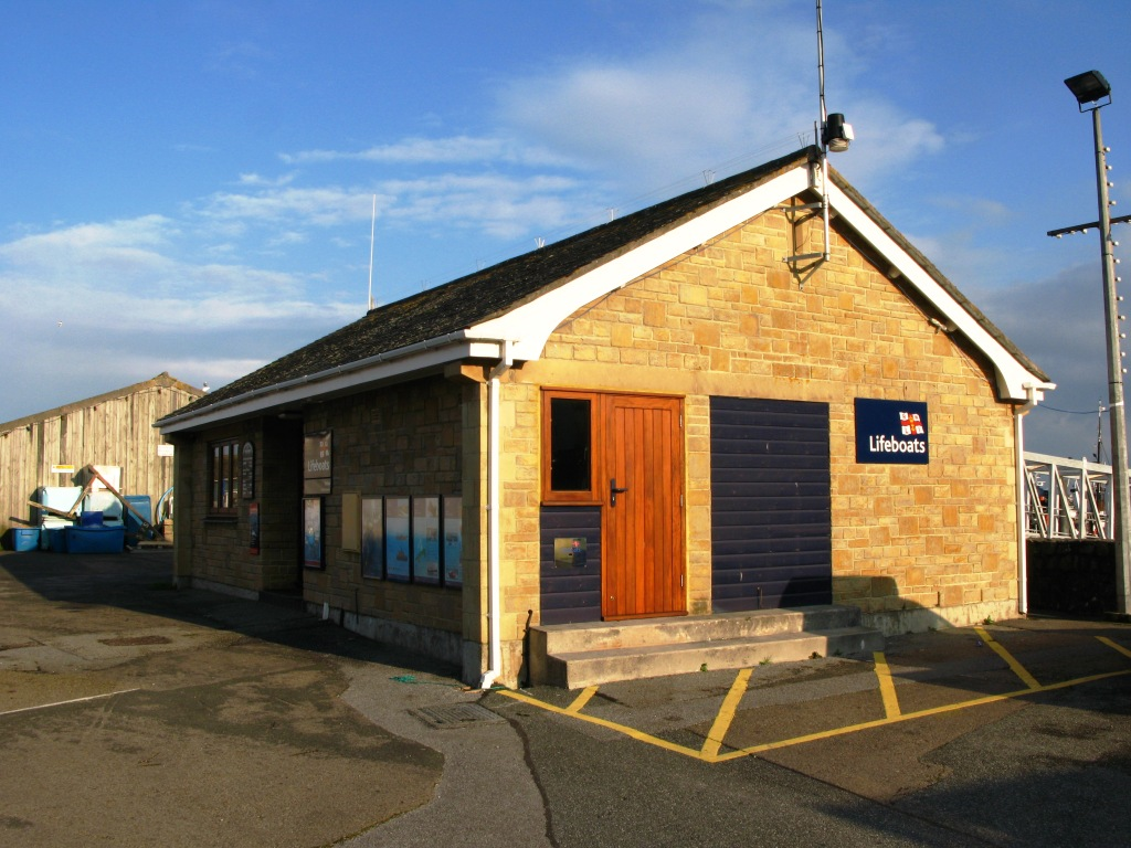 Penlee Lifeboat Station at Newlyn, Cornwall.